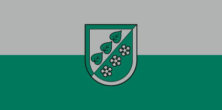 Flag of Sigulda Municipality